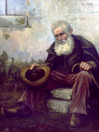 Old Beggar, 1916, by Louis Dewis, painted just outside his clothing store in Bordeaux